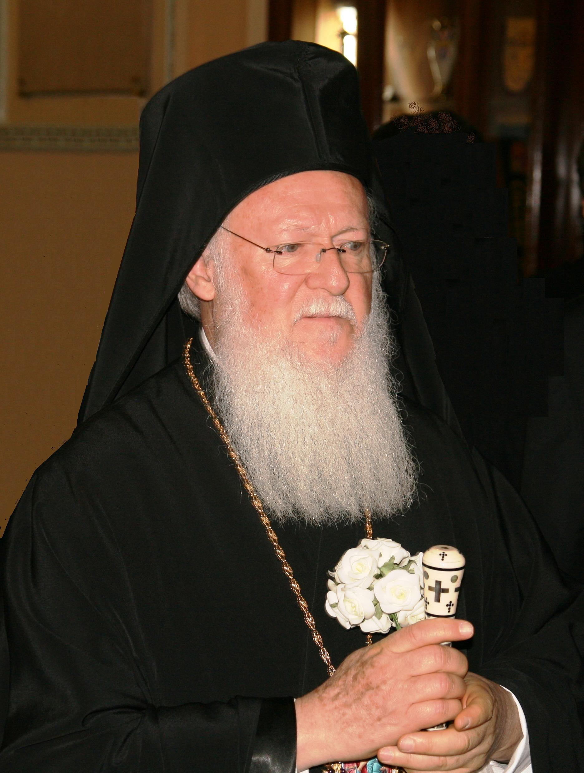 The Greek-Orthodox Ecumenical Patriarch Bartholomew.